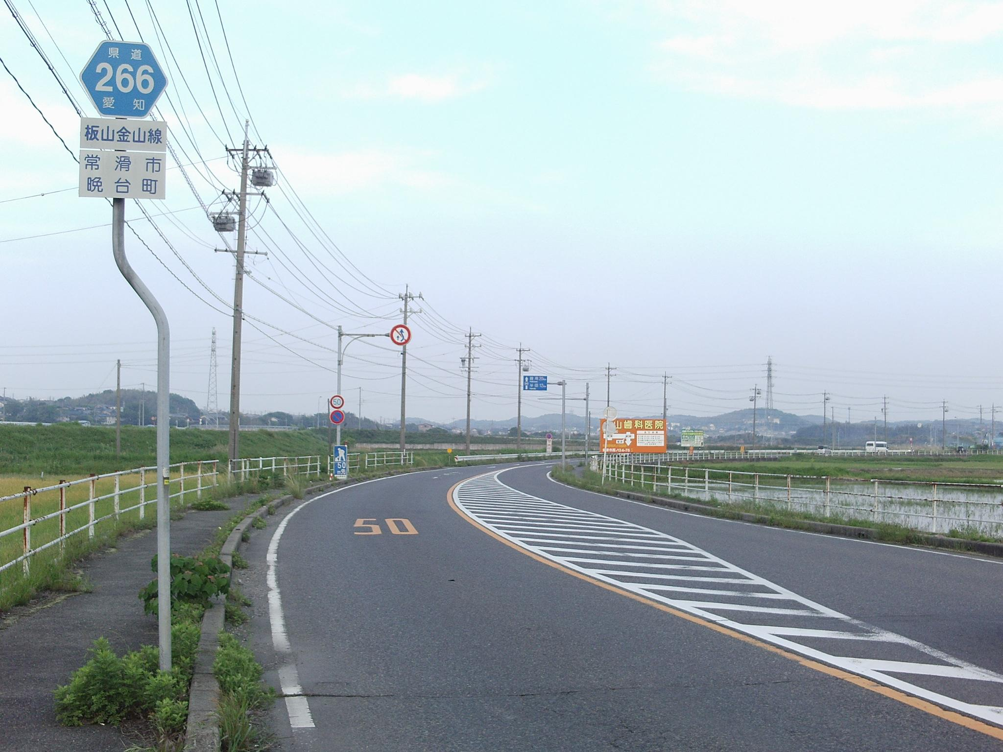 Aichi prefectural road No.266 in Bandaicho, Tokoname, Aichi.